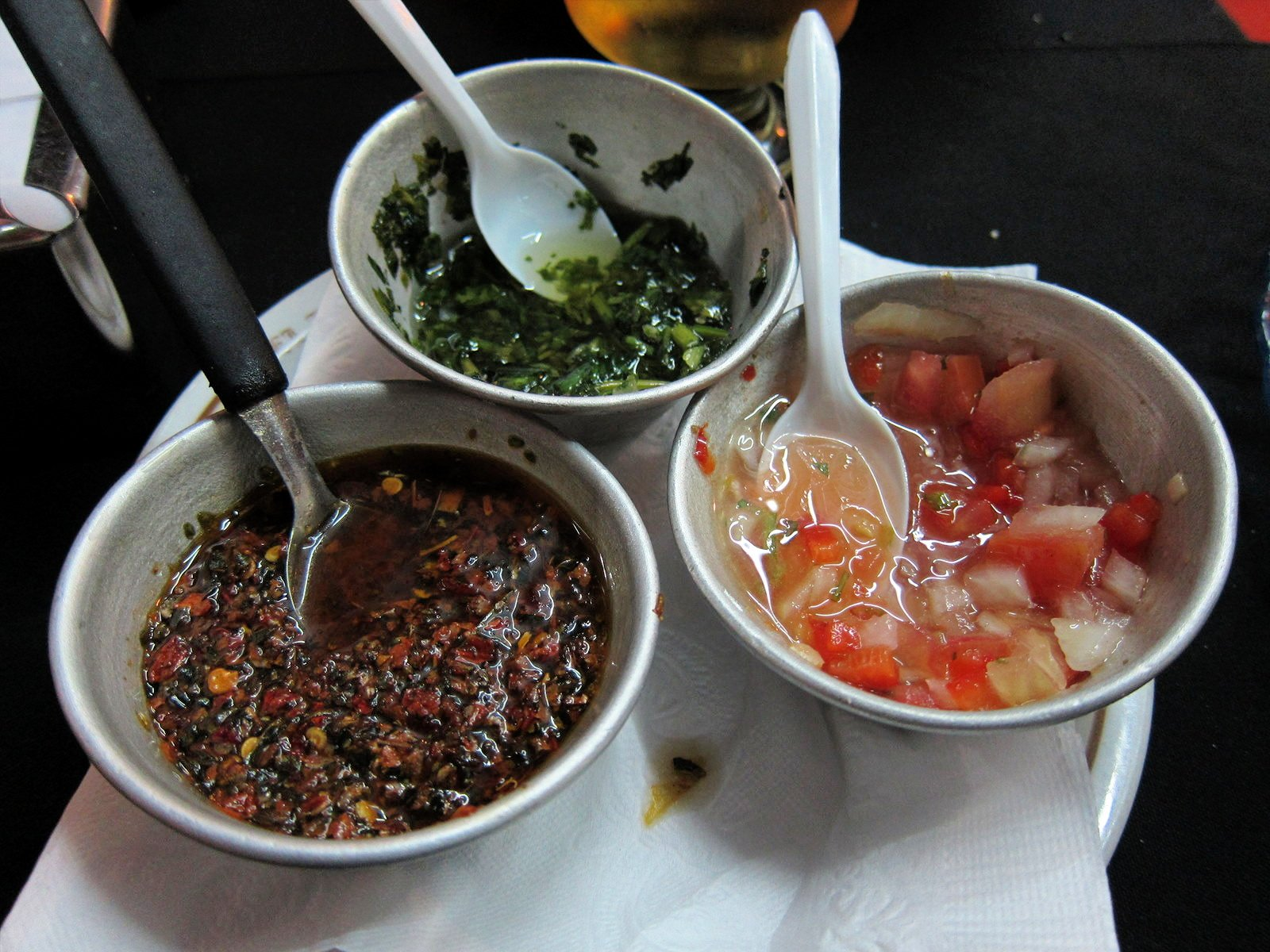 Sauces in a family run parilla (grill) in Palermo.